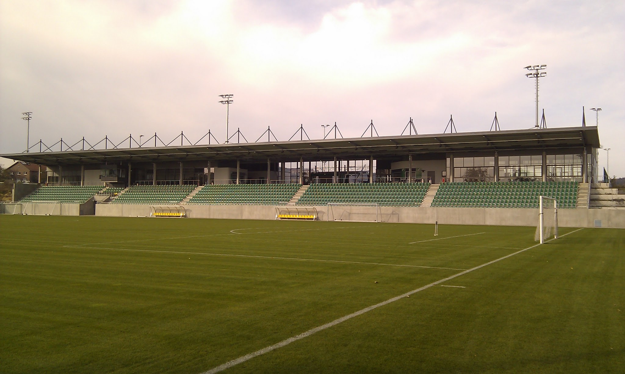 Häcker-Stadium in Rödinghausen, District of Herford, North Rhine-Westphalia, Germany.